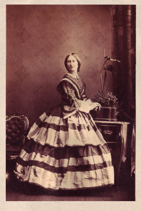 Lady Louisa Anne Magenis (1837-1918), carte de visite, by Camille Silvy, 1861. Lady Louisa Anne Magenis (née Lowry-Corry) by Camille Silvy albumen print, 27 May 1861 (see also NPG Ax53956)